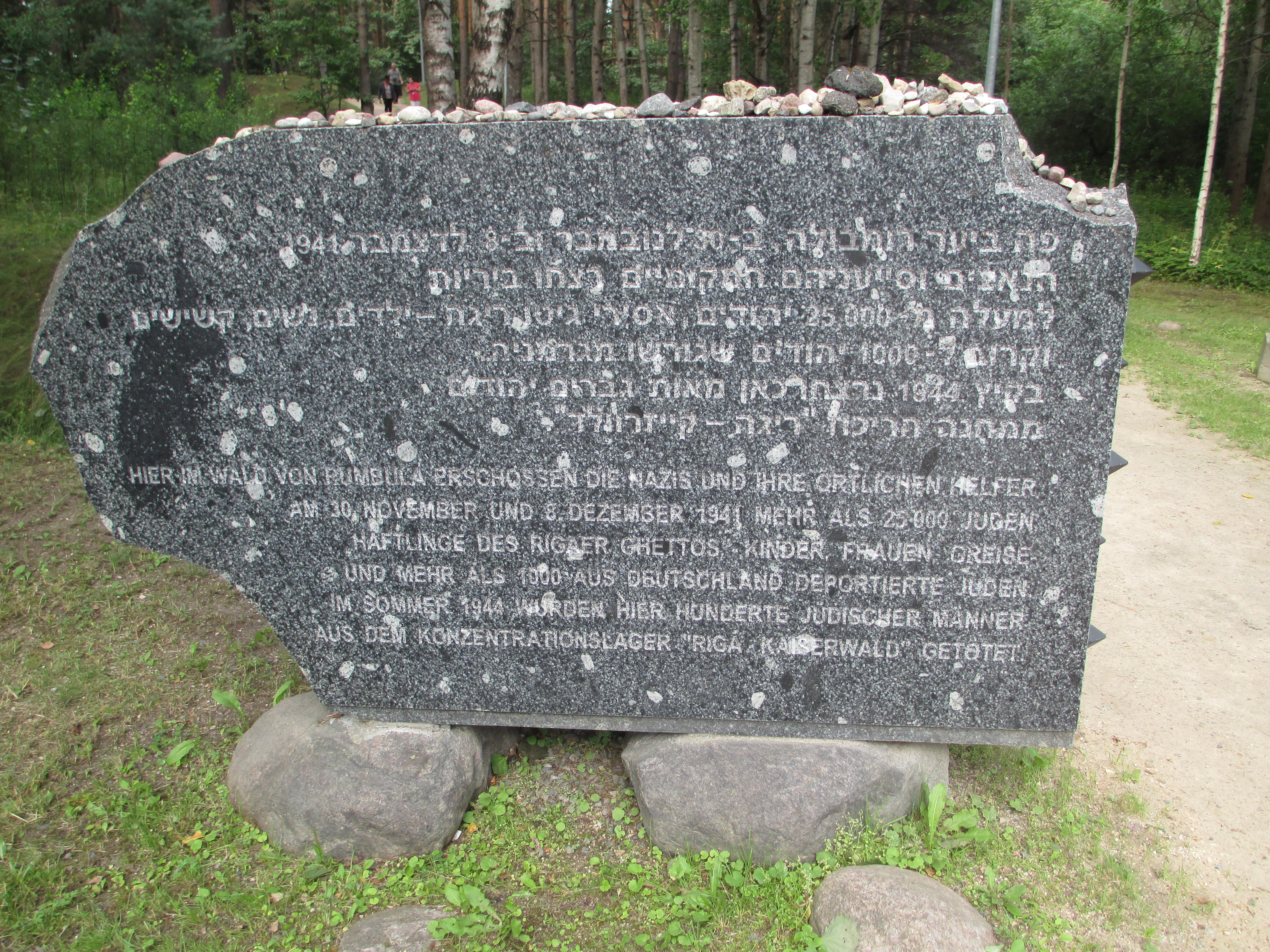 memorial plaque in rumbula forest killing site